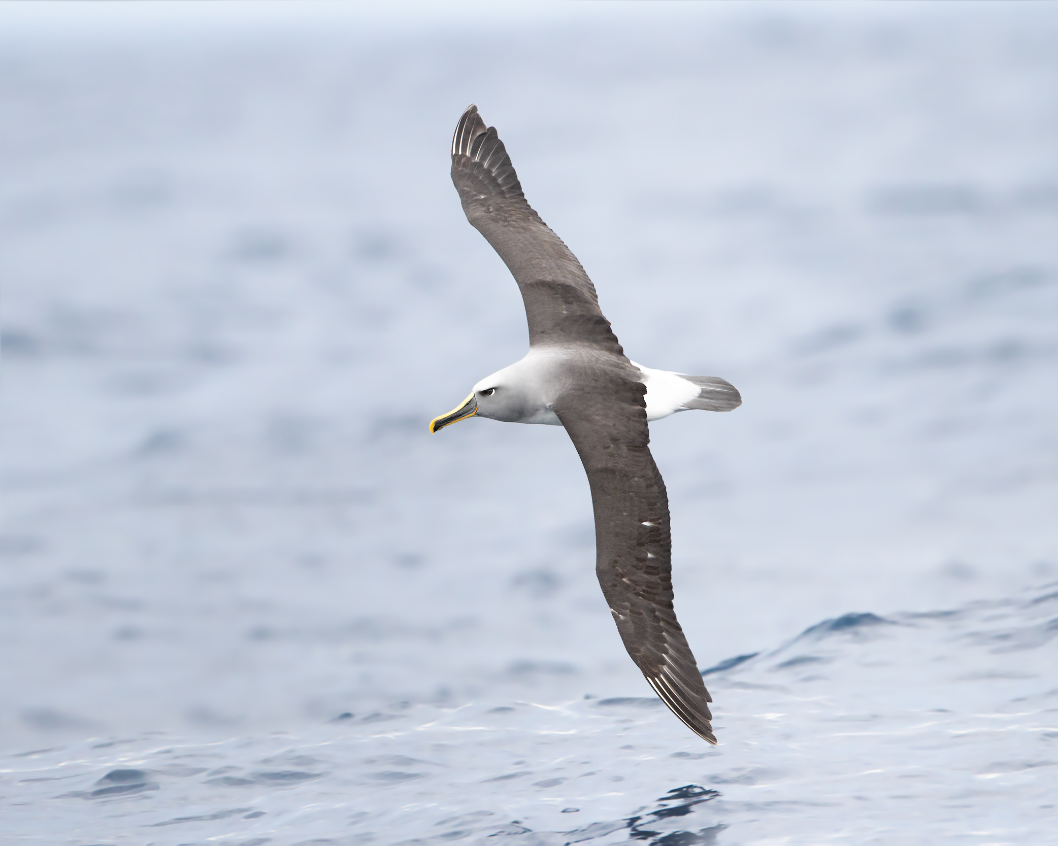 Buller's Albatross (Thalassarche bulleri), East of the Tasman Peninsula, Tasmania, Australia.